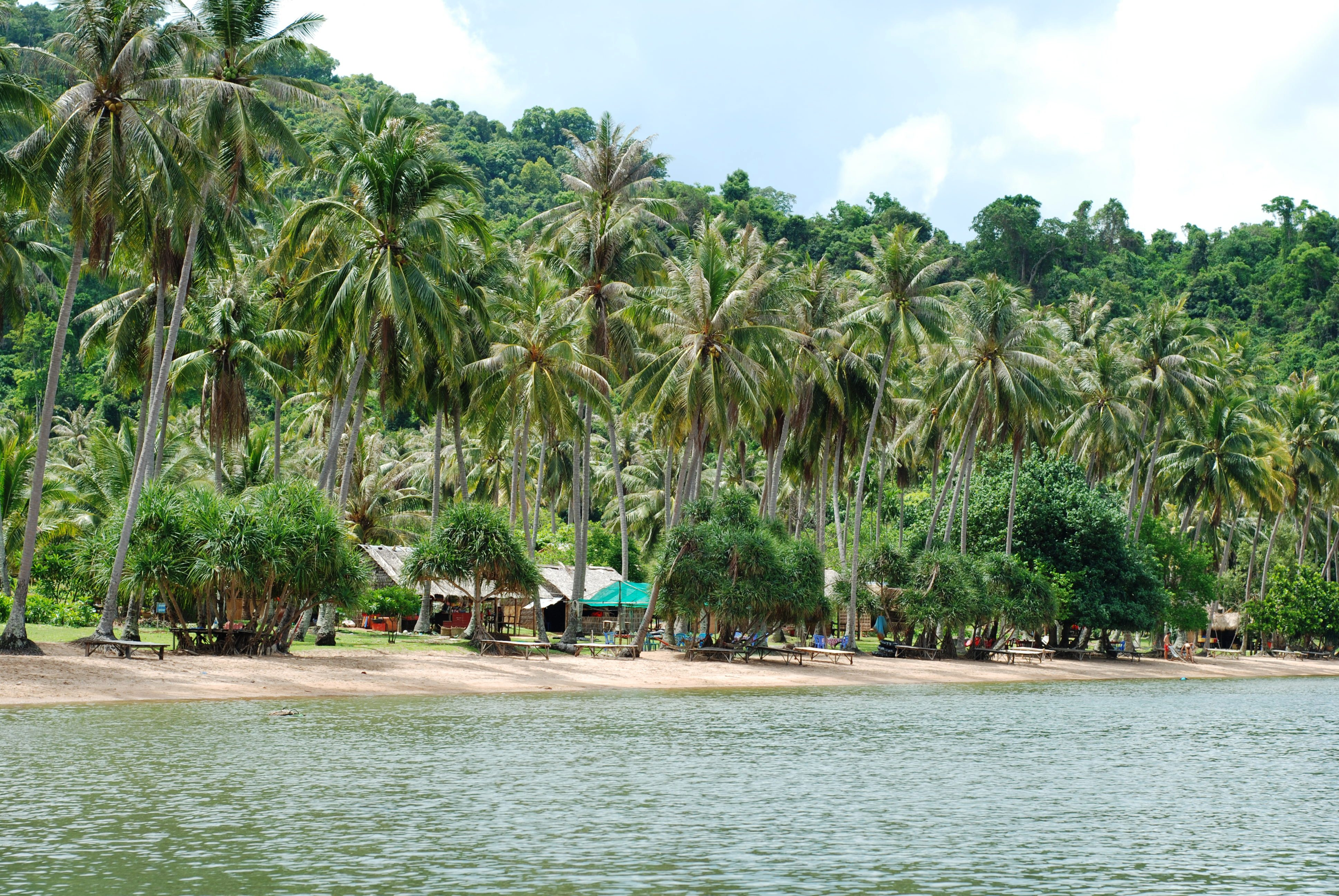 Koh Thonsáy Beach